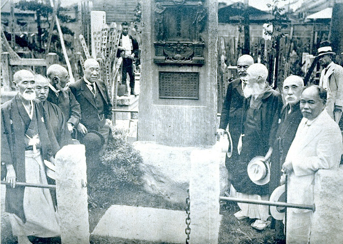 Unveiling of a monument in the Ekō-Temple (Ekō-in) commemorating a dissection conducted at the execution ground Kozukahara and observed by the physicians Maeno Ryōtaku, Sugita Gempaku, and Nakagawa Jun'an in 1771, who later published the "New Book on Anatomie" (Kaitai Shinsho). The ceremony was organized by leading members of the Japanese Society for the History of Medicine (Nihon Ishi-gakkai). The photo was shortly after published in the monthly Rekishi shashin (No. 109, 1 Aug. 1922).